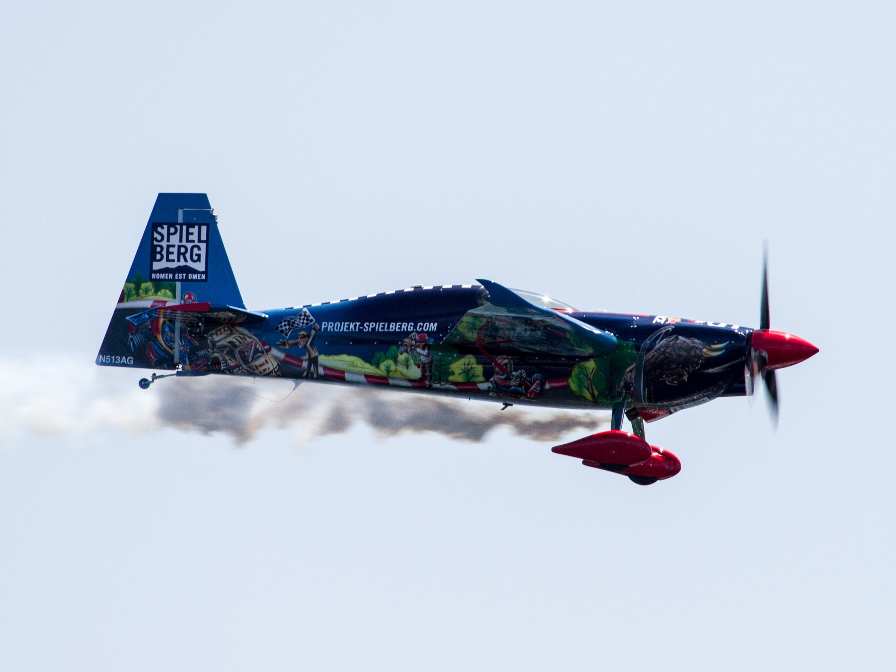 2017 Red Bull Air Race of Chiba Petr Kopfstein's plane